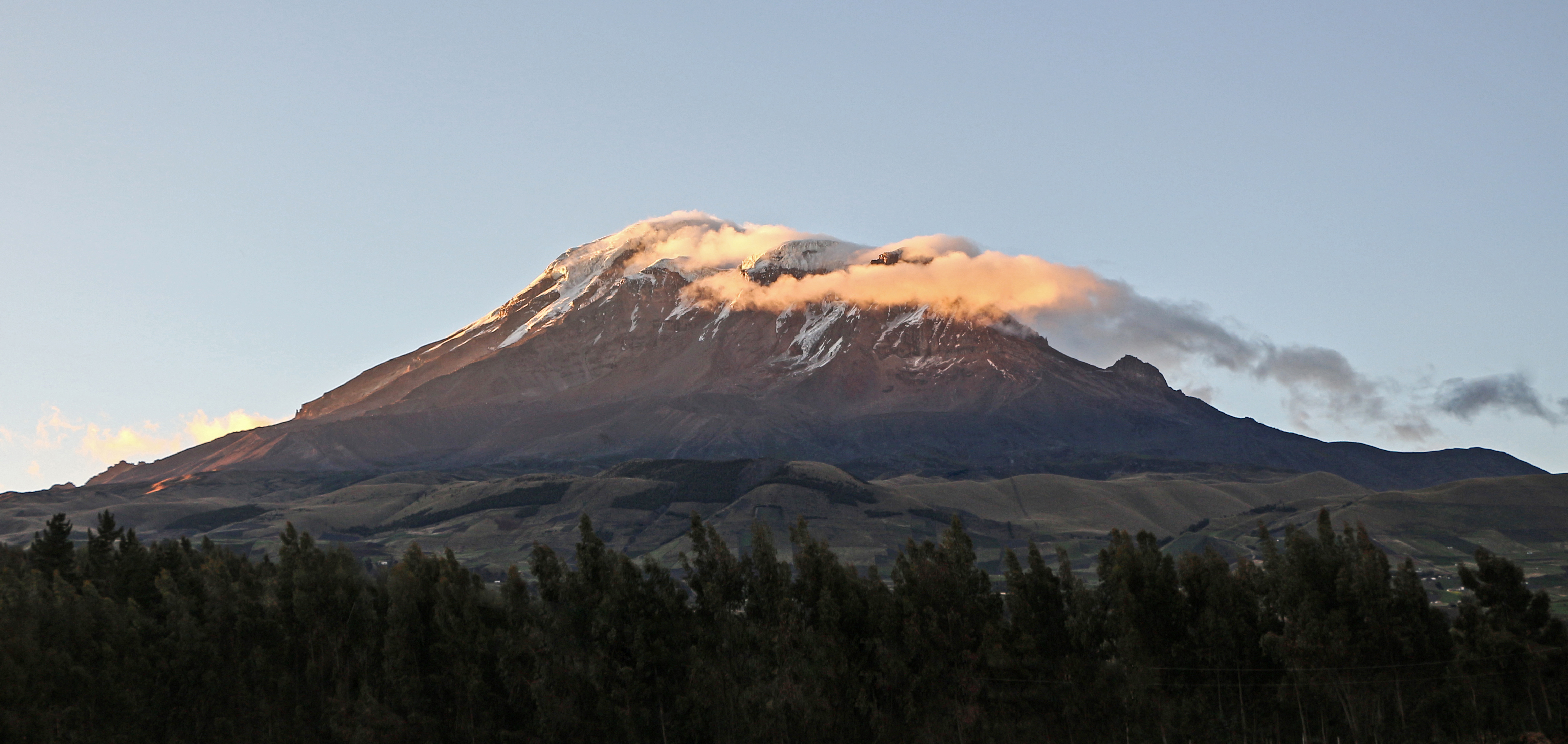 Volcano Chimborazo (6268m), Ecuador